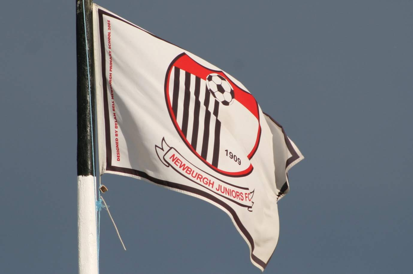 Newbrugh FC Flag was re-designed as the result of a competition run in the local Primary School. Local youngster Dylan Bell designed this now iconic flag.